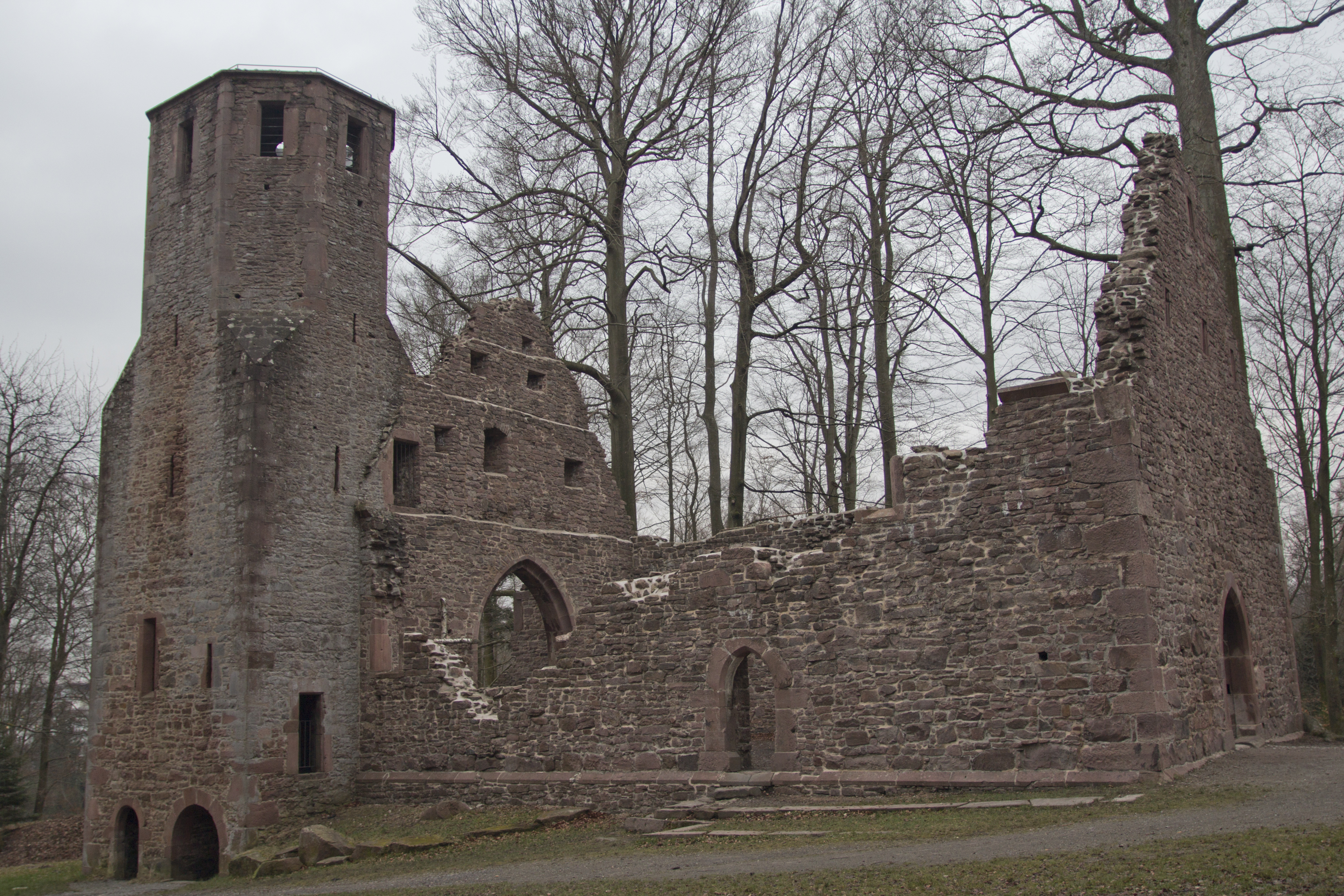 The ruins of the St. Barbara's Chapel in Karlsbad, Baden-Württemberg.